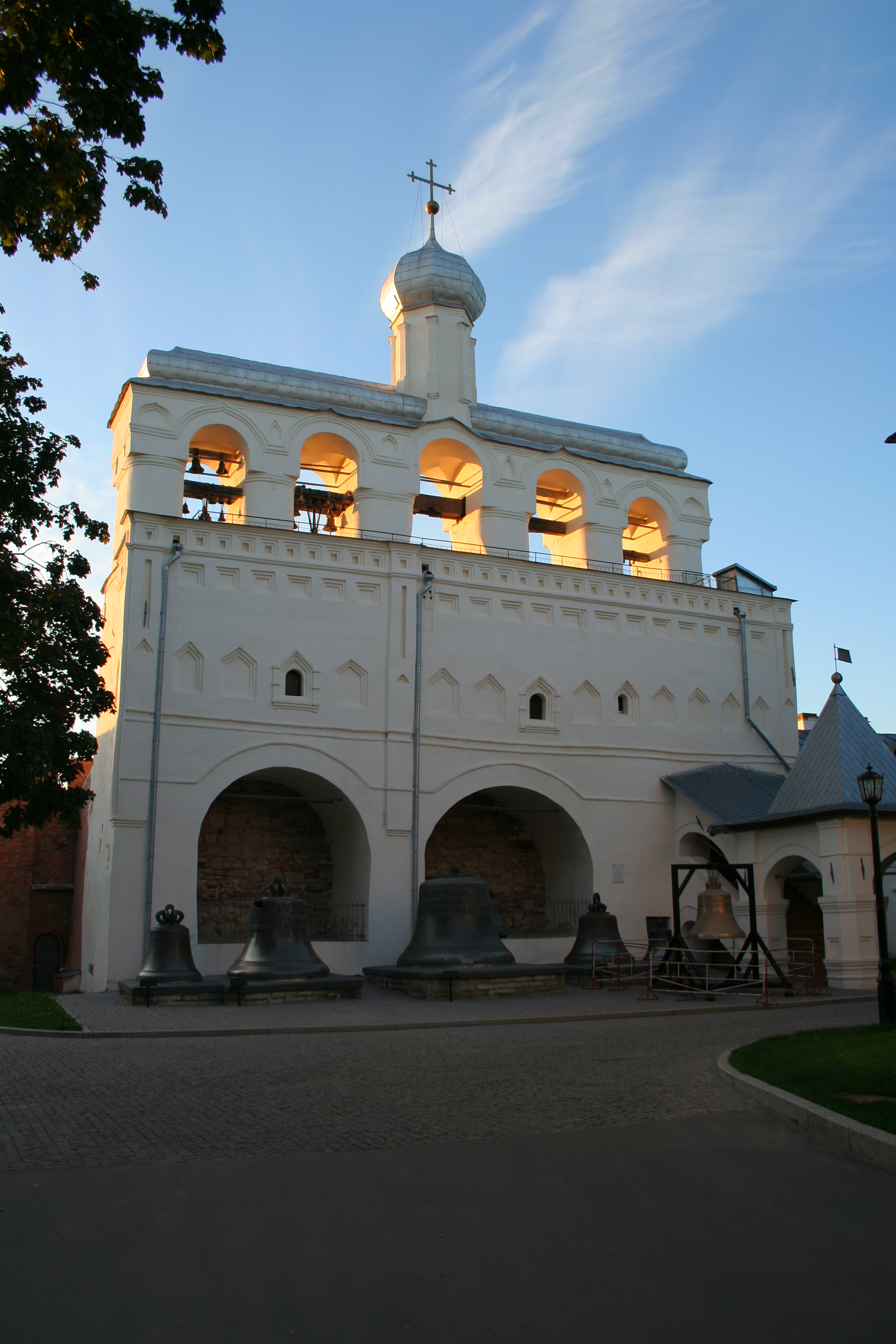 The Kremlin in Velikiy Novgorod, Russia. Bell tower.